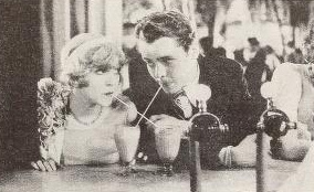 Olive Borden and Arthur Lake in the 1929 film, Dance Hall Other information for an explanation of the copyright for information regarding public domain